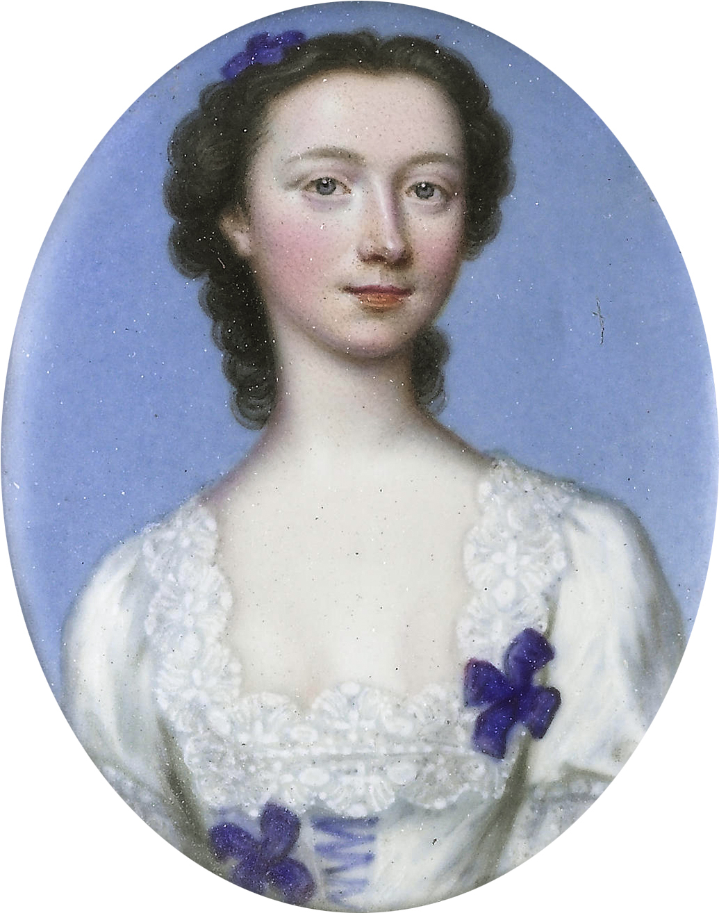 Portrait of Catherine Talbot (1721–1770)